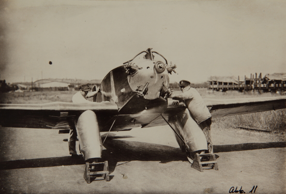 Albatros L59 lightplane.